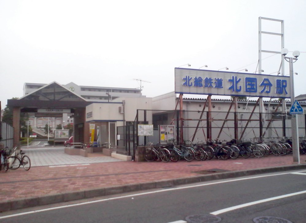 Hokusō Line Kita-Kokubun Station ( 26 June 2011 )